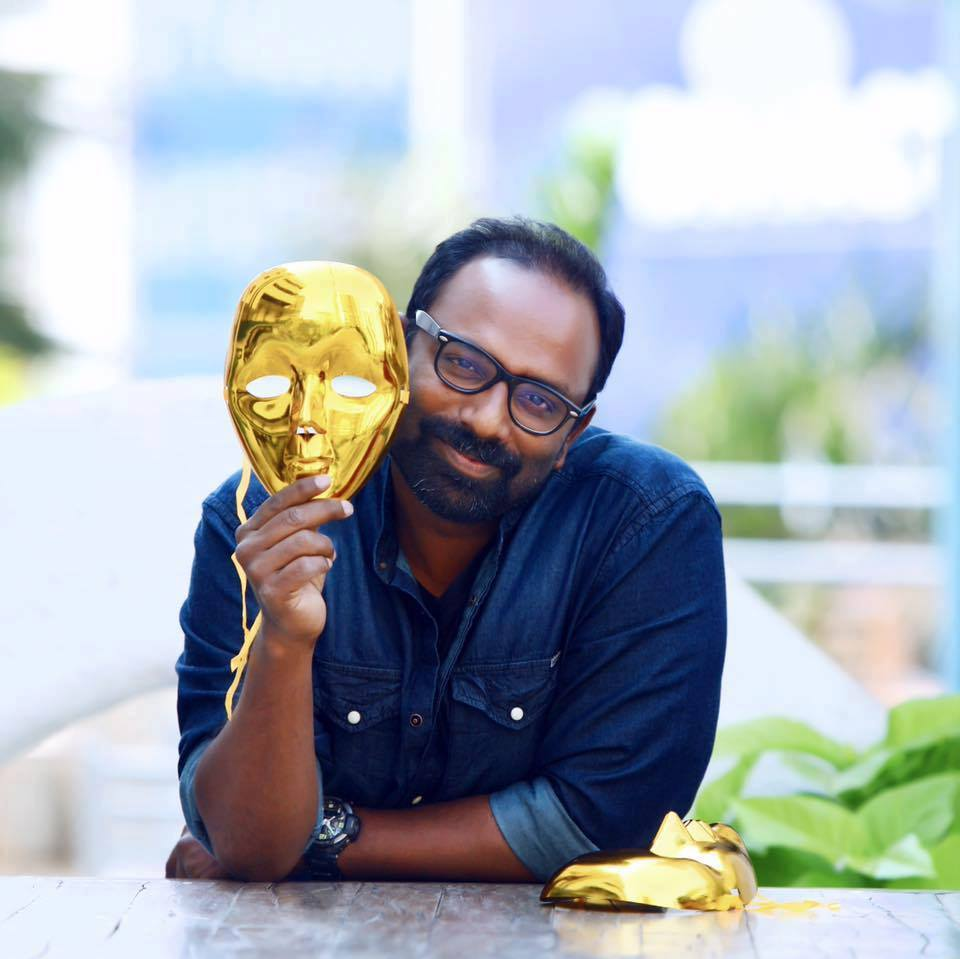 K D Satyam